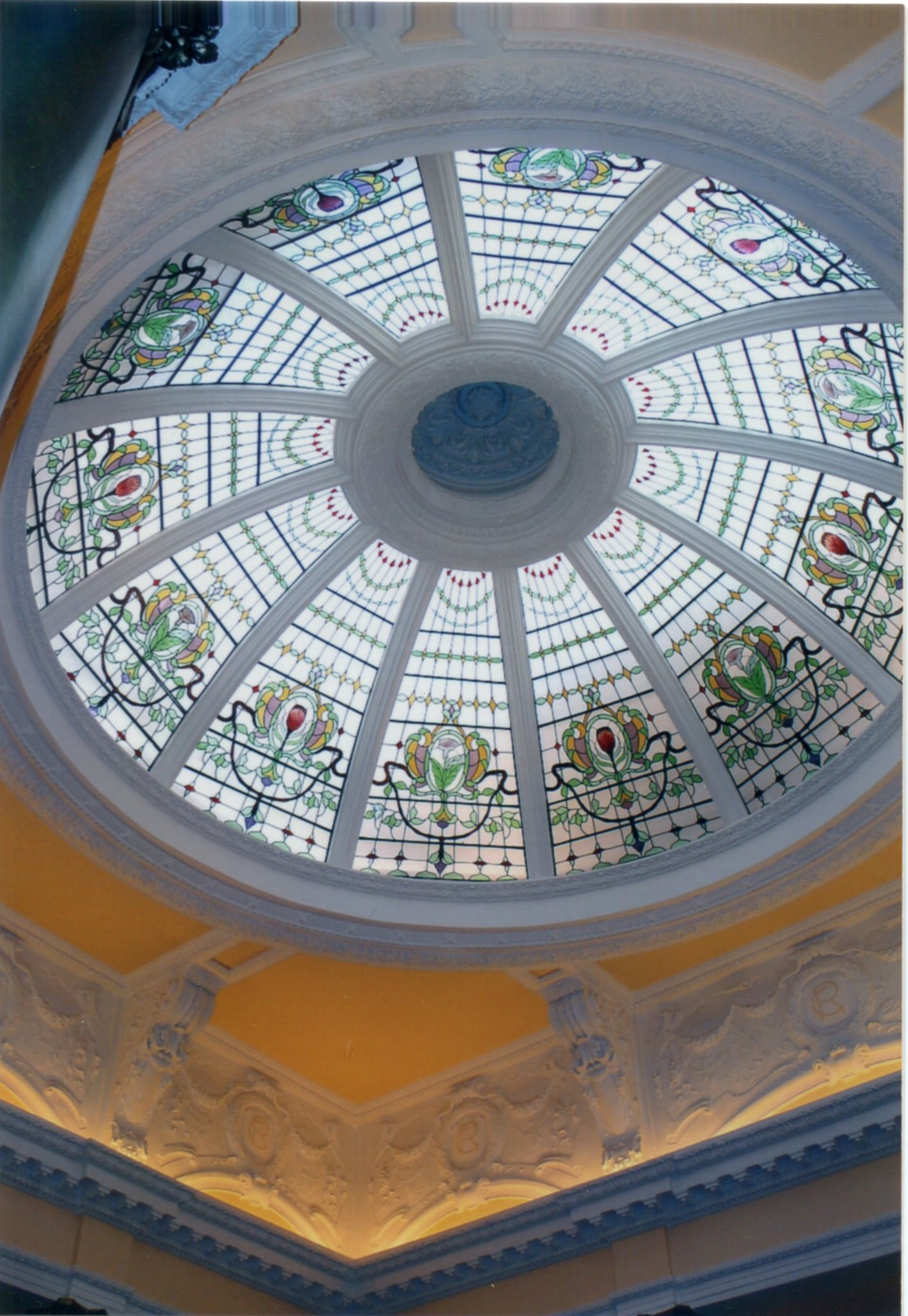 Inside the Rand Club in Johannesburg